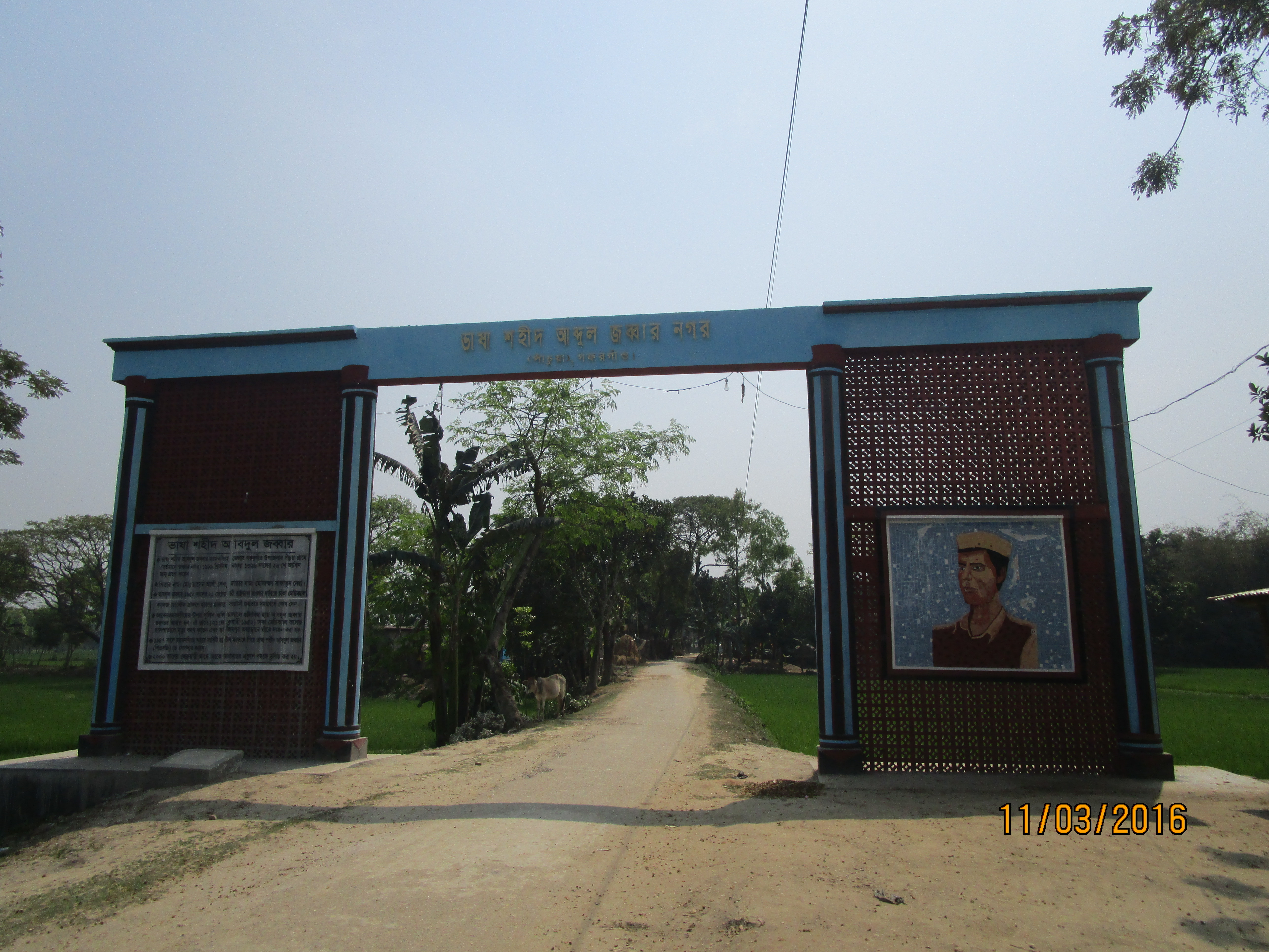 Abdul Jabbar Nagar at Gafargaon